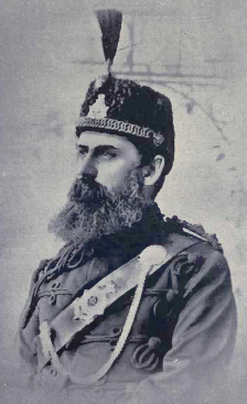 William Nassau Kennedy Source: The Canadian album : men of Canada; or, Success by example, in religion, patriotism, business, law, medicine, education and agriculture; containing portraits of some of Canada's chief business men, statesmen, farmers, men of the learned professions, and others; also, an authentic sketch of their lives; object lessons for the present generation and examples to posterity (Volume 3) (1891-1896) Creator:Cochrane, William, 1831-1898 Creator:Hopkins, J. Castell (John Castell), 1864-1923 Publisher:Brantford, Ont. : Bradley, Garretson & Co. Date:1891-1896